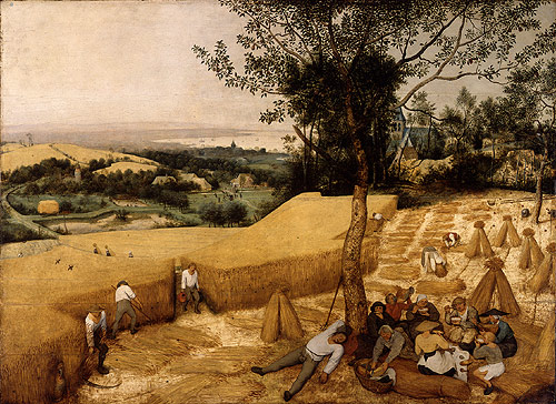 Part of the series The Seasons.